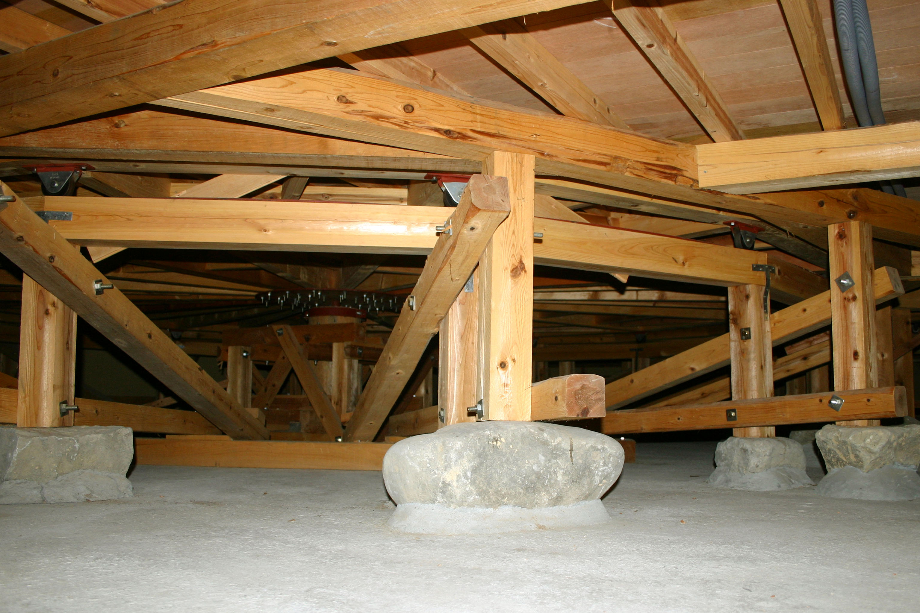 Mawari Butai at Wakimachi Theater Odeonza in Mima-shi, Tokushima-ken